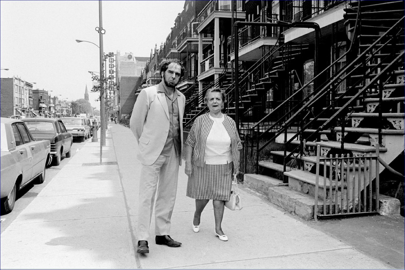 Quebec author Claude Jasmin